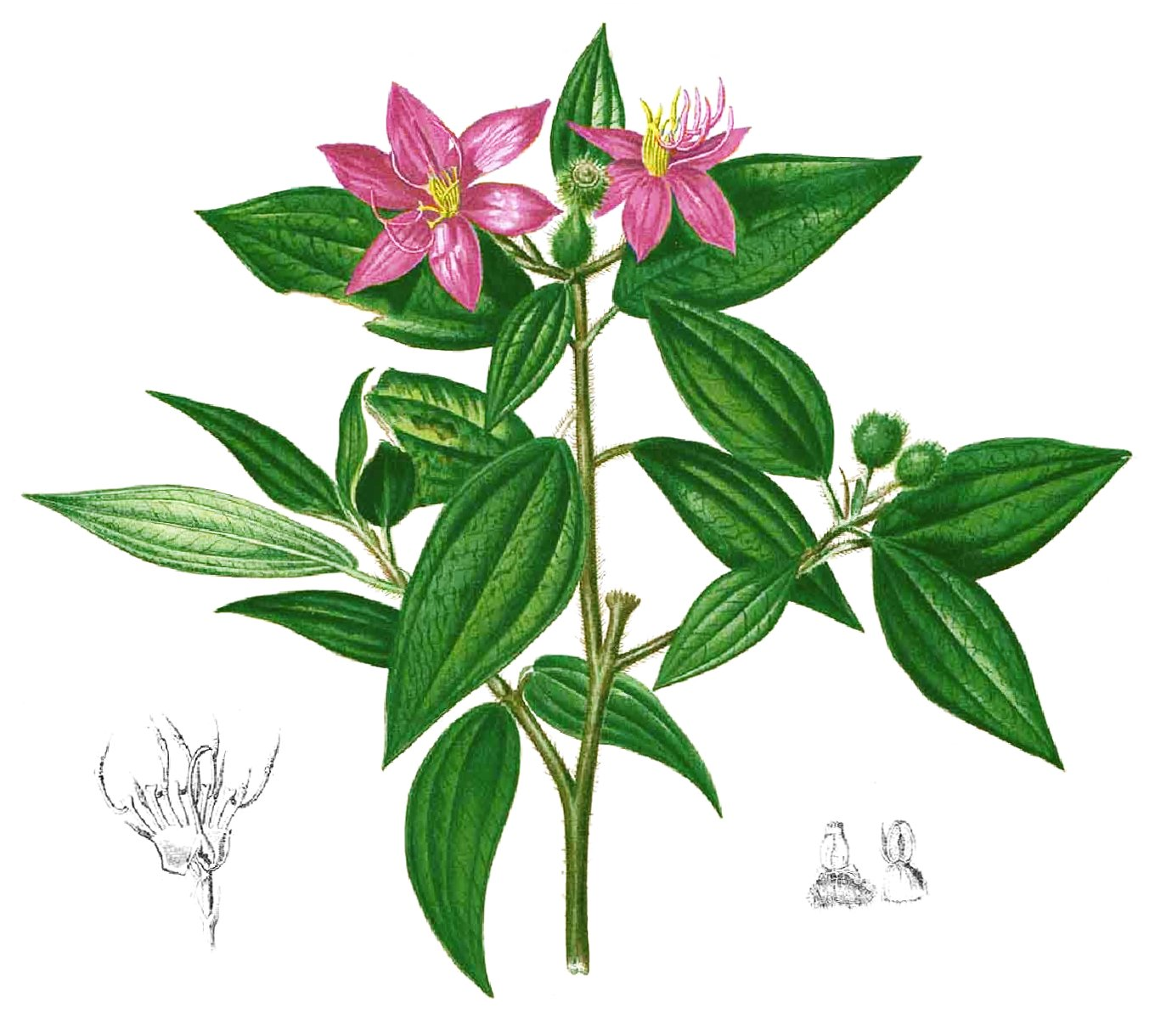 Plate from book